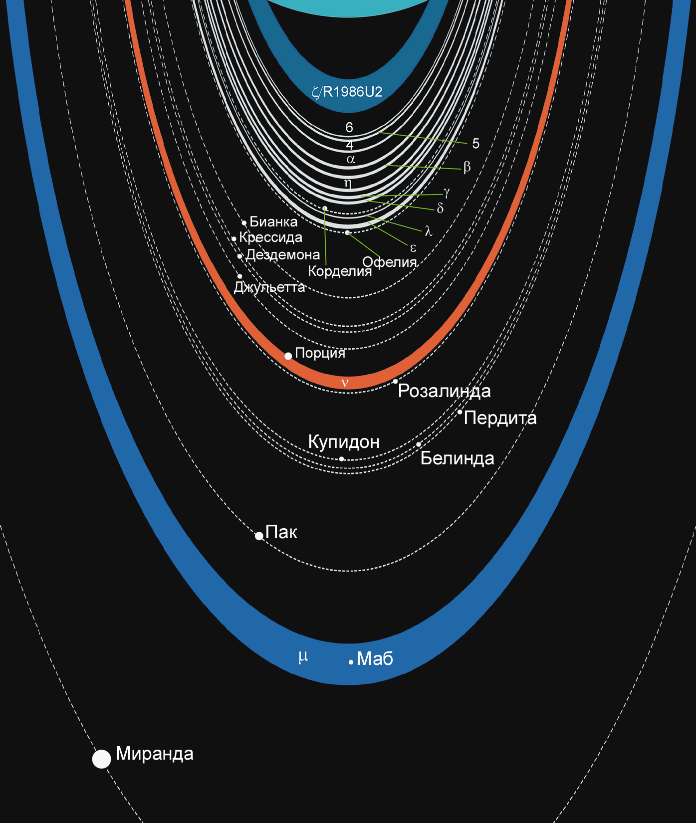 To-scale schematic of the ring and moon system of the planet Uranus.